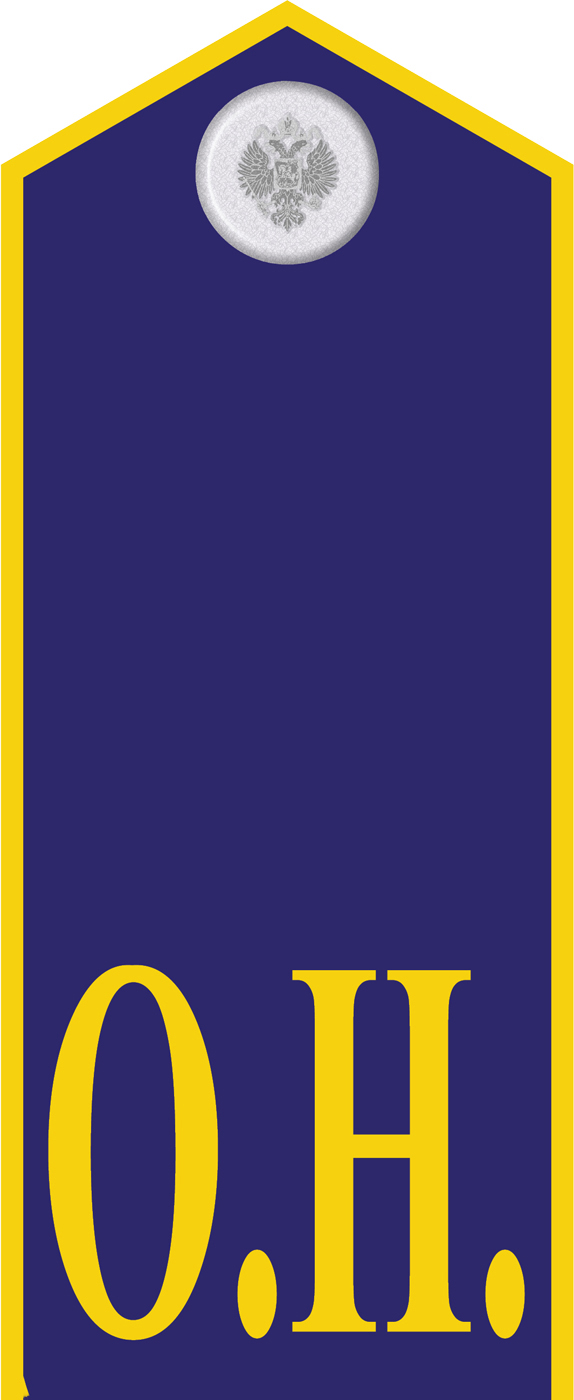 Rank insignia of the Imperial Russian Army (IRA) until 1917, here "Cadet" of the Orenburg-Nepljuevski Cadet Corps.